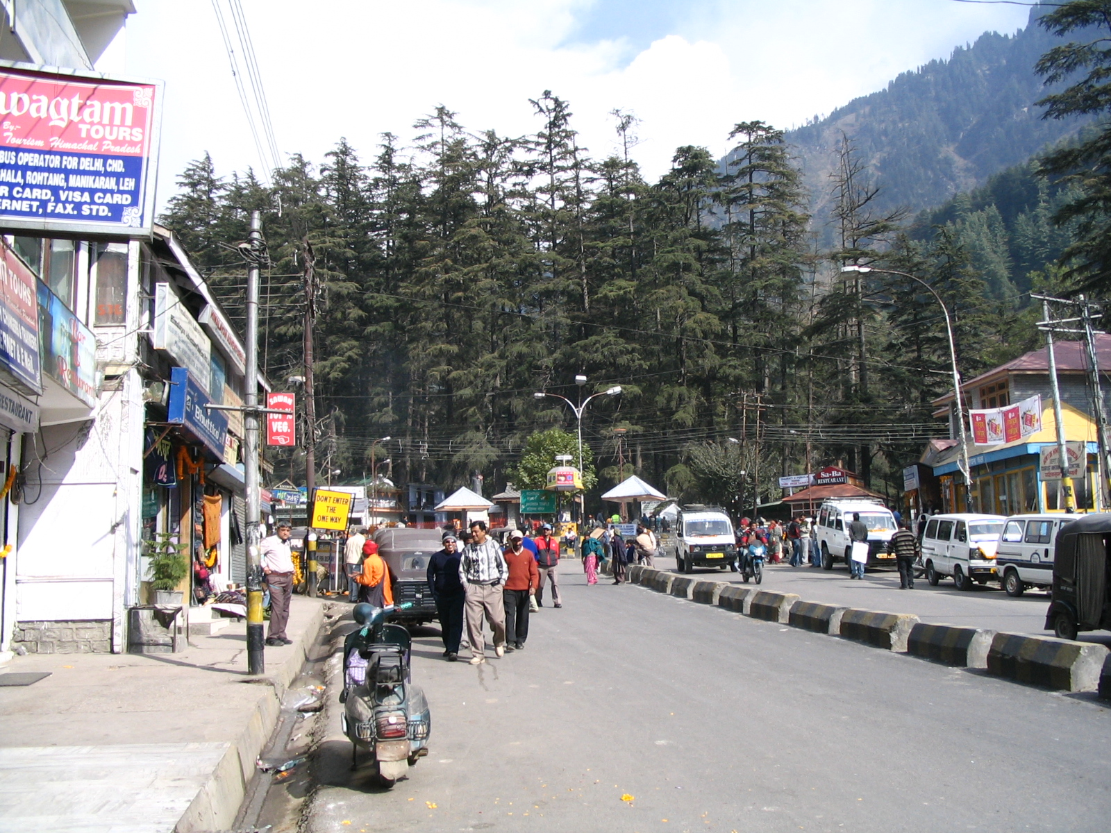 Mall street in Manali, India. Trees in background are Cedrus deodara.